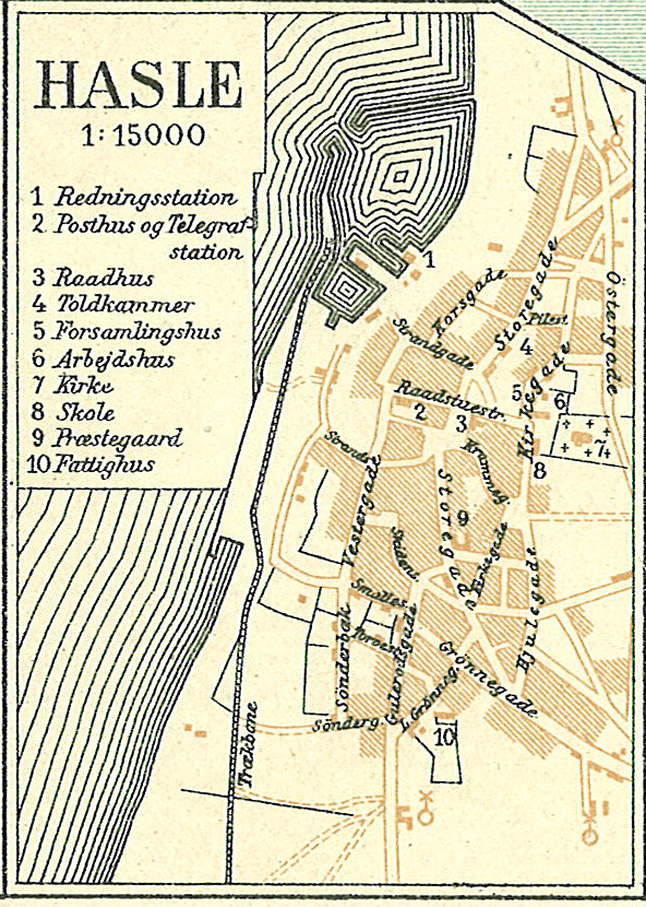 Map of Bornholm in Denmark